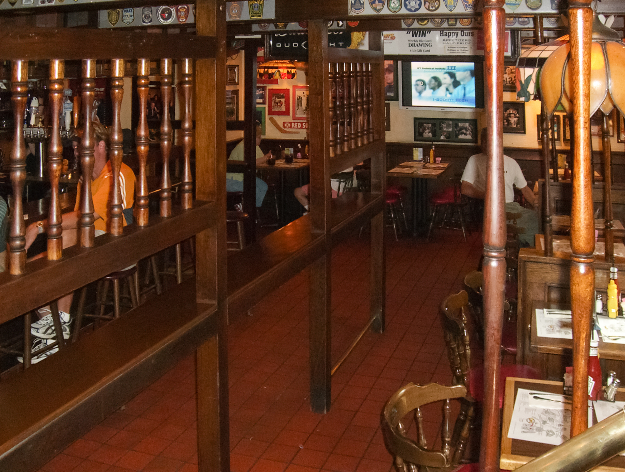 Interior view of Cheers Beacon Hill in Boston, Massachusetts, USA